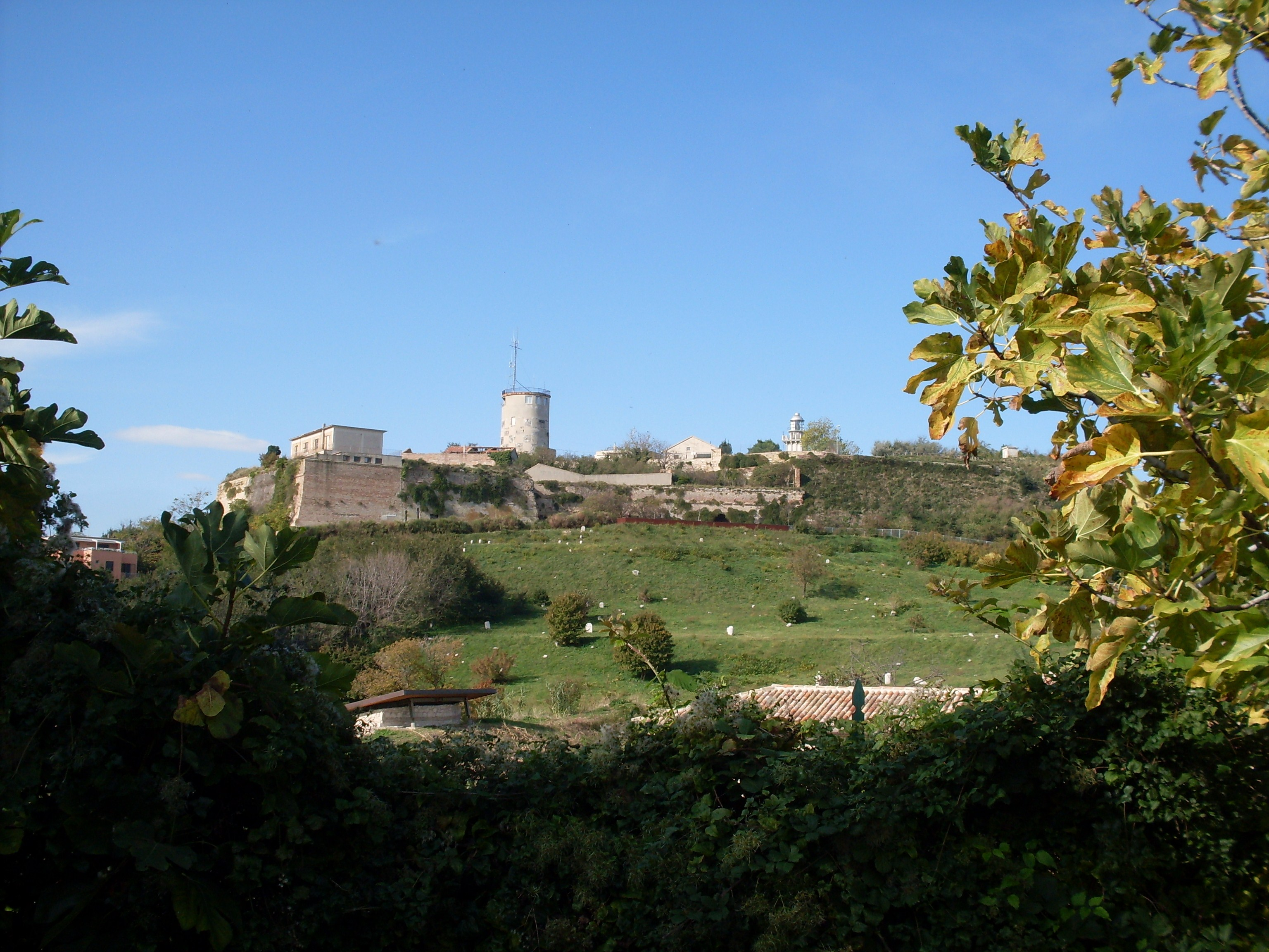 Italy Ancona Cardeto Fort Cappuccini